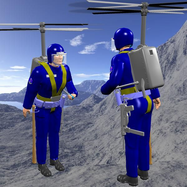 (A possible design for a helibackpack with counter-rotating twin rotors. I made this image with CGI.